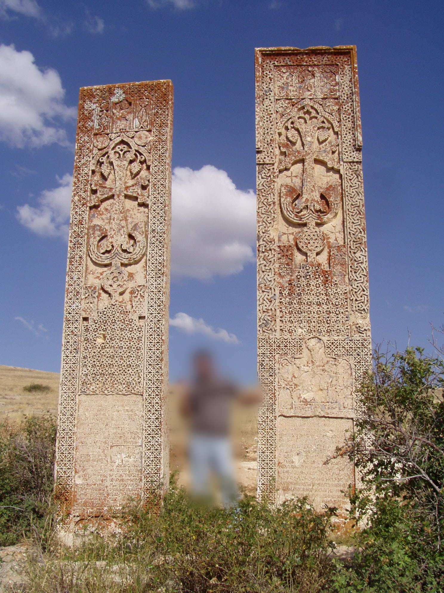 Armenian monastery of Aprank about 15 km SW of Tercan. During the 19th c. it was called the Monastery of Saint David Two extremely large (over 6 metres tall) khachkars dated 1191 and 1194. Their height and prominent position means that they are clearly visible from the Erzincan - Erzurum highway, 8 km away.